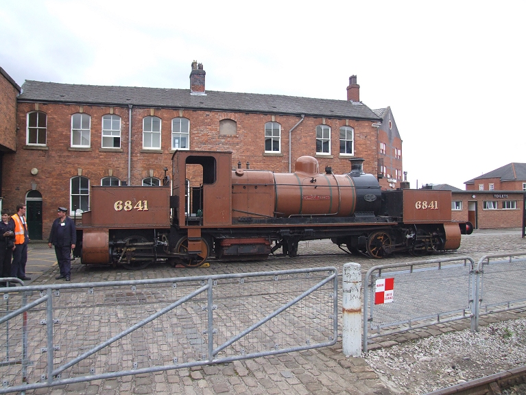 William Francis